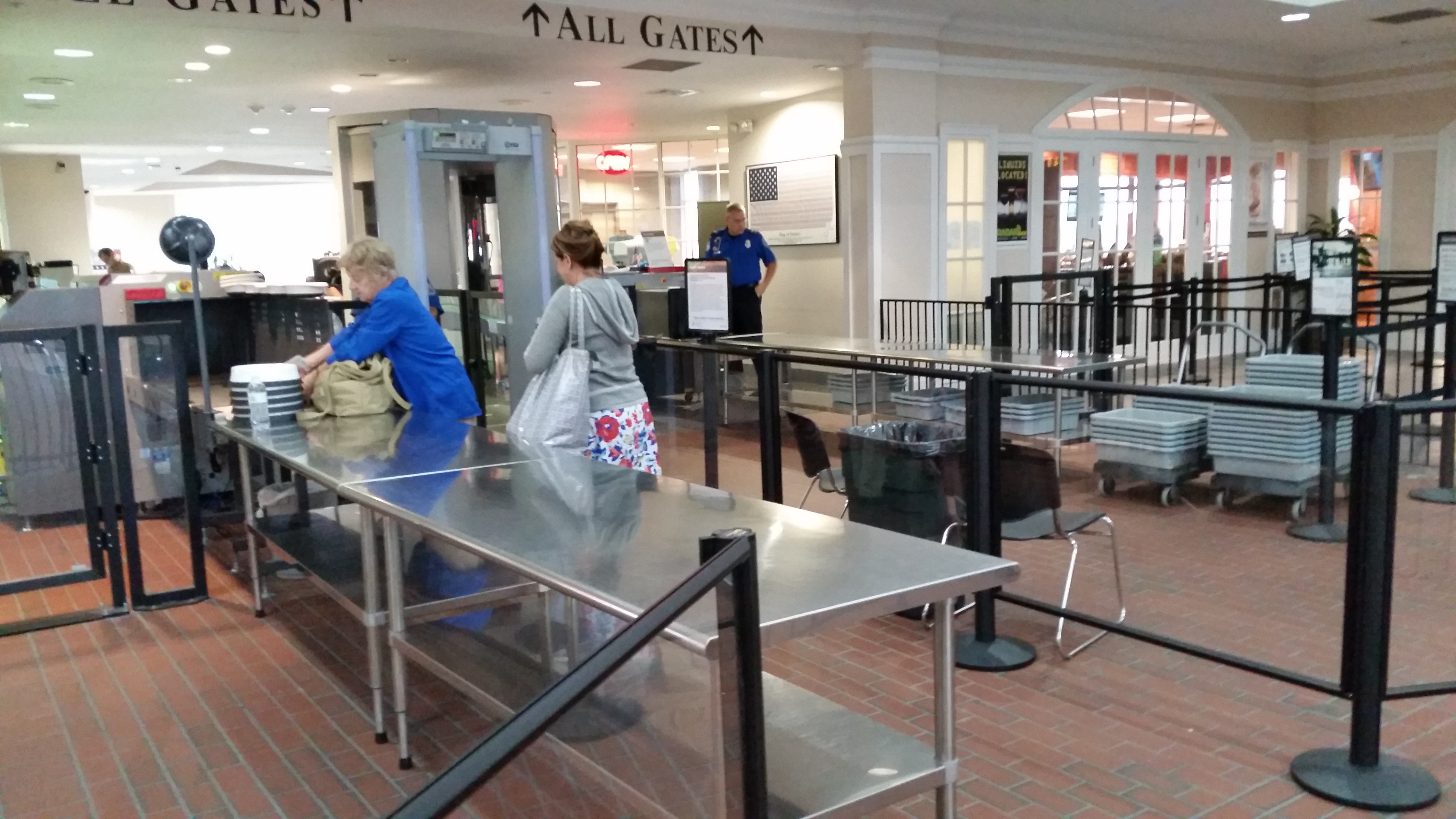 The main security terminal and entrance to the terminal for boarding at Wilmington International Airport